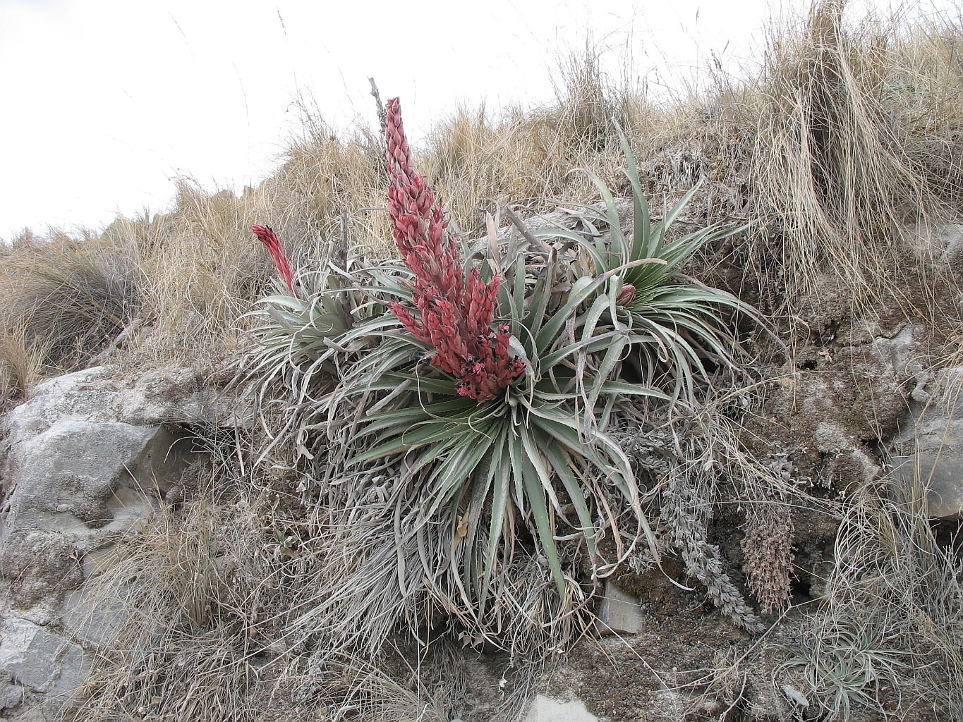 Puya dyckioides, in habitat in Bolivia, exact location unknown.